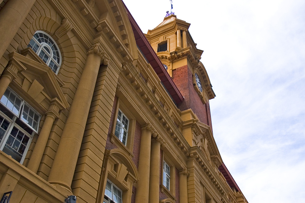 Auckland Ferry Terminal (9 January 2005.) Photograph by James Shook, who retains copyright and releases the image under the license shown below.